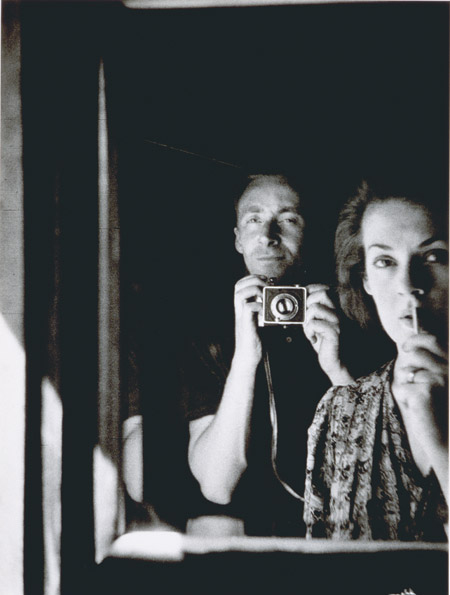 In the mirror: self portrait with Joy Hester, photograph, by Albert Tucker